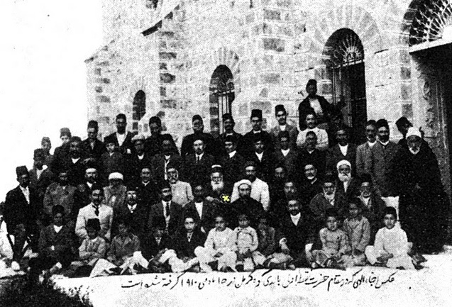 a group of Baha'is in Iran 1910 The Bahai community in 1910